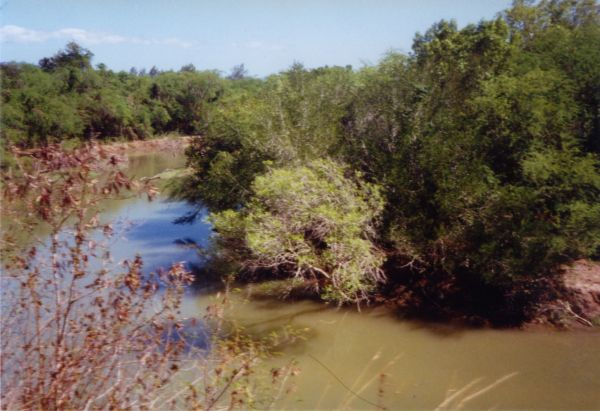 Seiçal River at Seiçal suco, subdistrict Baucau, district Baucau, East Timor